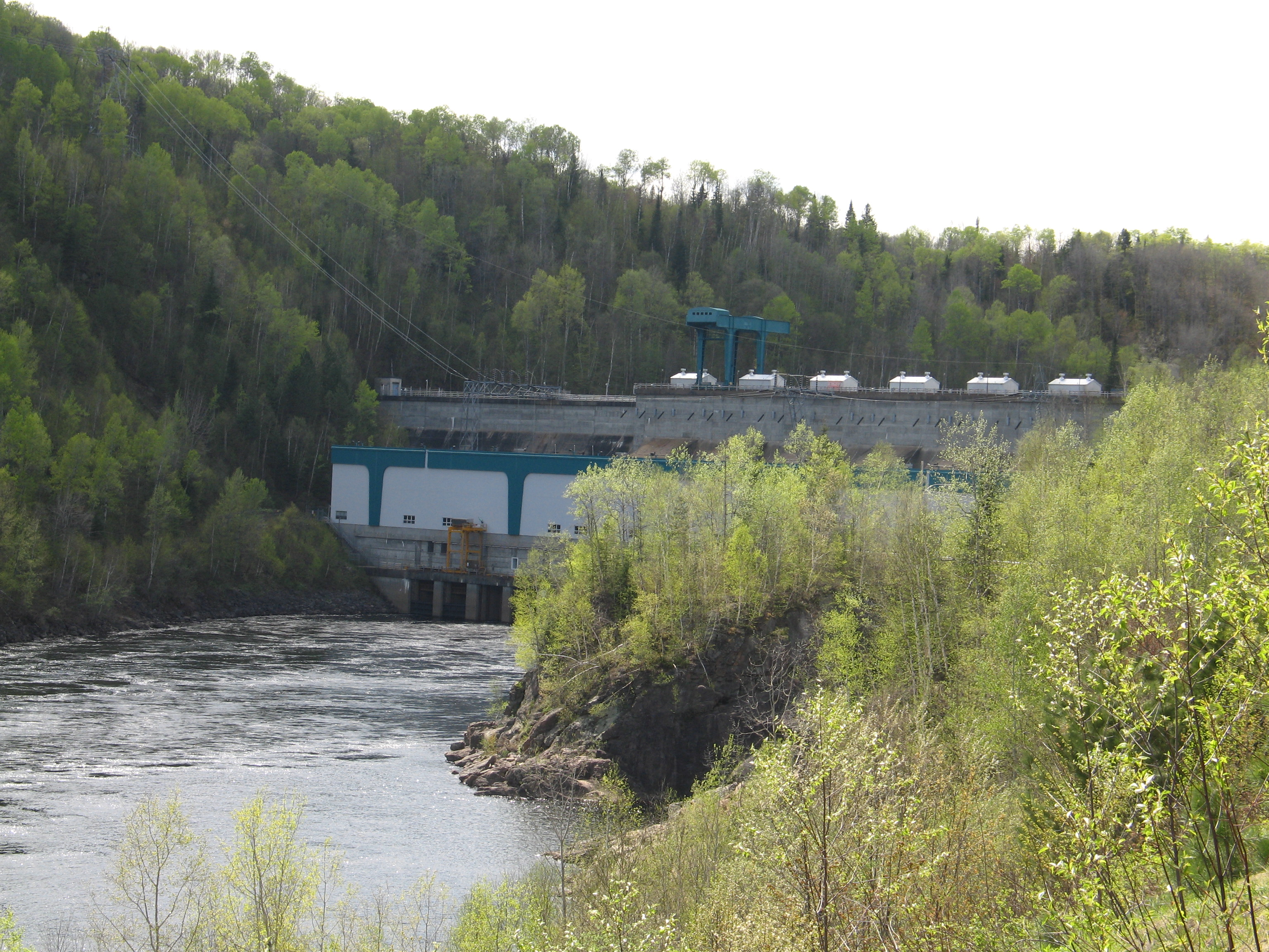 Hydro-Québec's Beaumont generating station, north of La Tuque, Quebec. This 270-MW power station has been inaugurated in 1958.